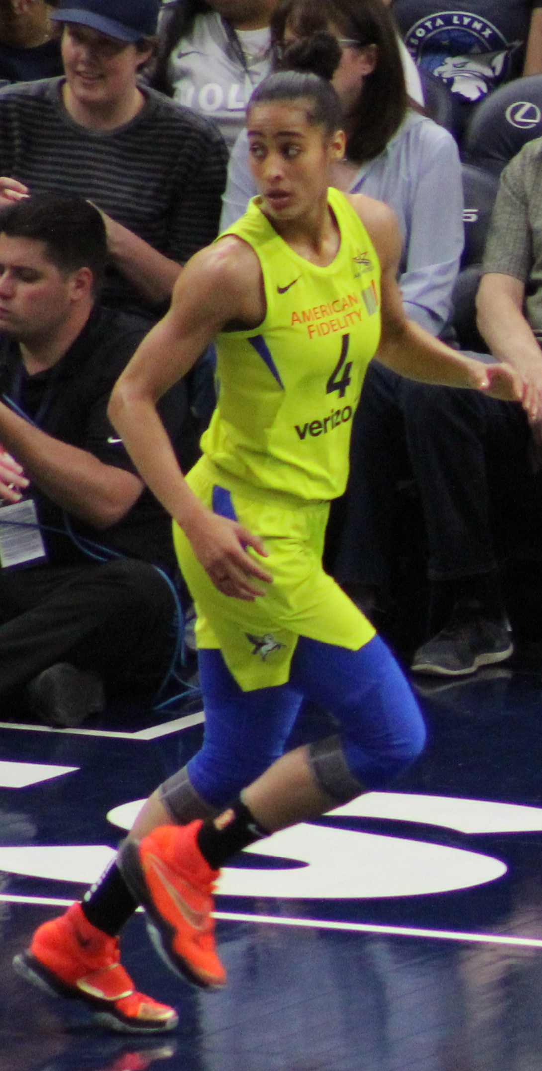 Skylar Diggins-Smith of the Dallas Wings in 2018